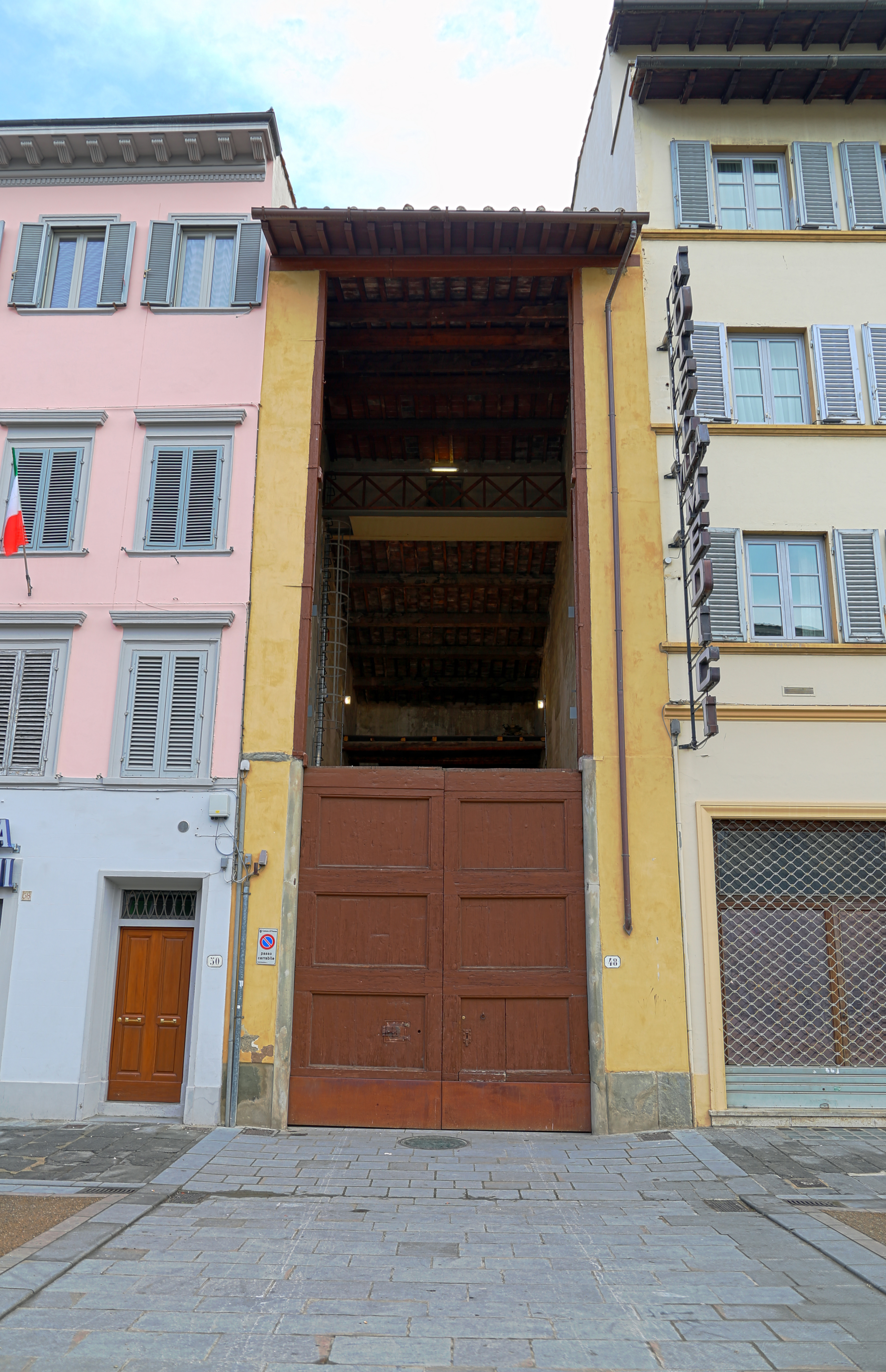 Florence, miscellany